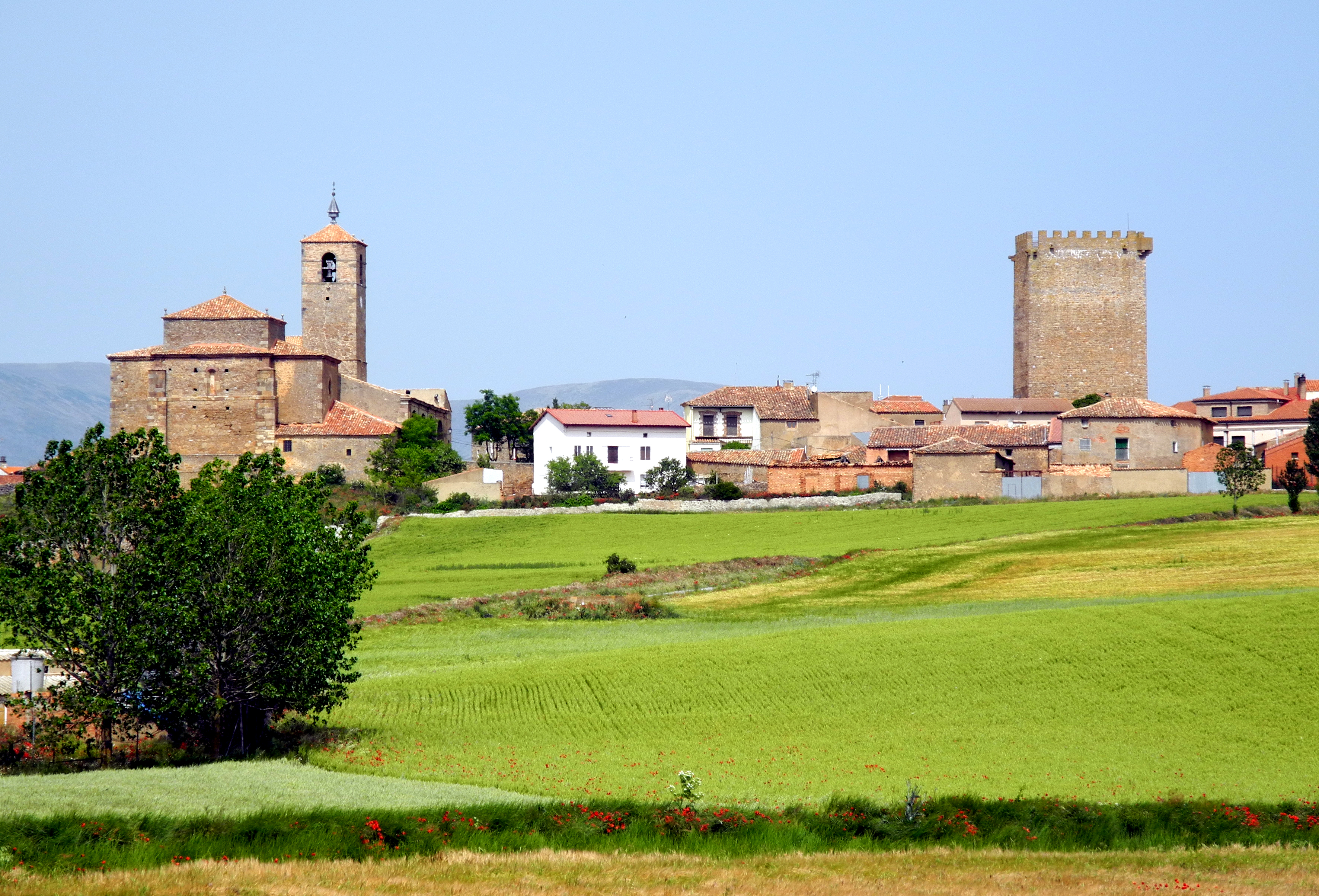 Fields and skyline. Noviercas, Soria, Castile and León, Spain